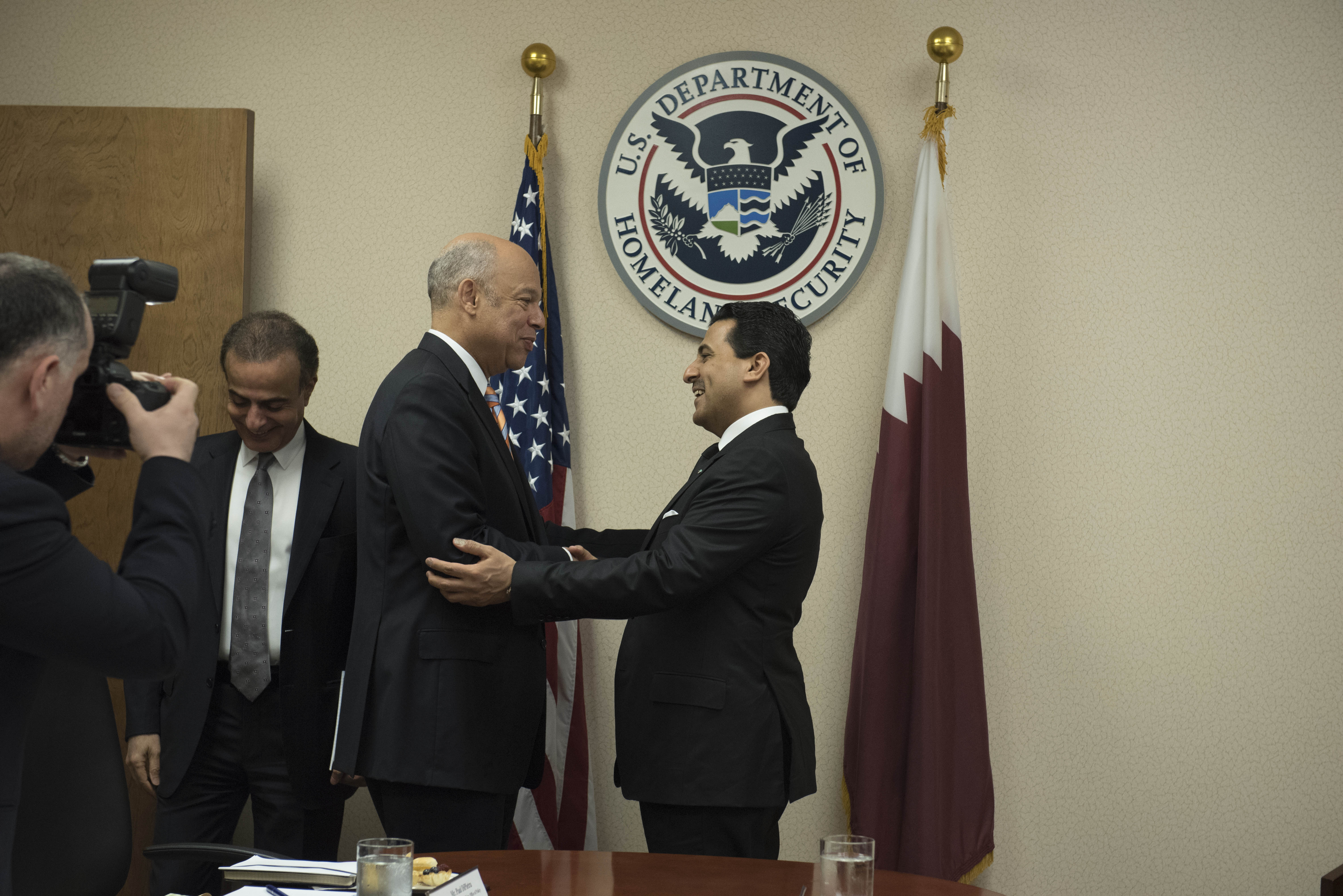 WASHINGTON—Secretary of Homeland Security Jeh Johnson meets with Attorney General of the State of Qatar His Excellency Dr. Ali bin Fetais Al Marri and Qatari Ambassador to the United States His Excellency Mohammed Jaham Al Kuwari to discuss a range of shared homeland security-related issues, including aviation security and counterterrorism cooperation in Washington, D.C. March 28, 2016. Secretary Johnson, Attorney General Al Marri, and Ambassador Al Kuwari reaffirmed the importance of effective information sharing in the aftermath of the tragic terrorist attacks in Brussels last week. Official DHS photo by Jetta Disco.